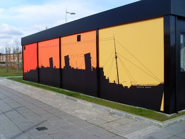 Titan Clydebank office With a montage to the Queen Mary - one of many great cruise liners to be built at the former John Brown's Shipyard, of which the Titan Crane was a part.